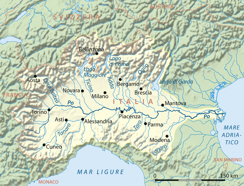 Drainage basin of Po River, Italian version